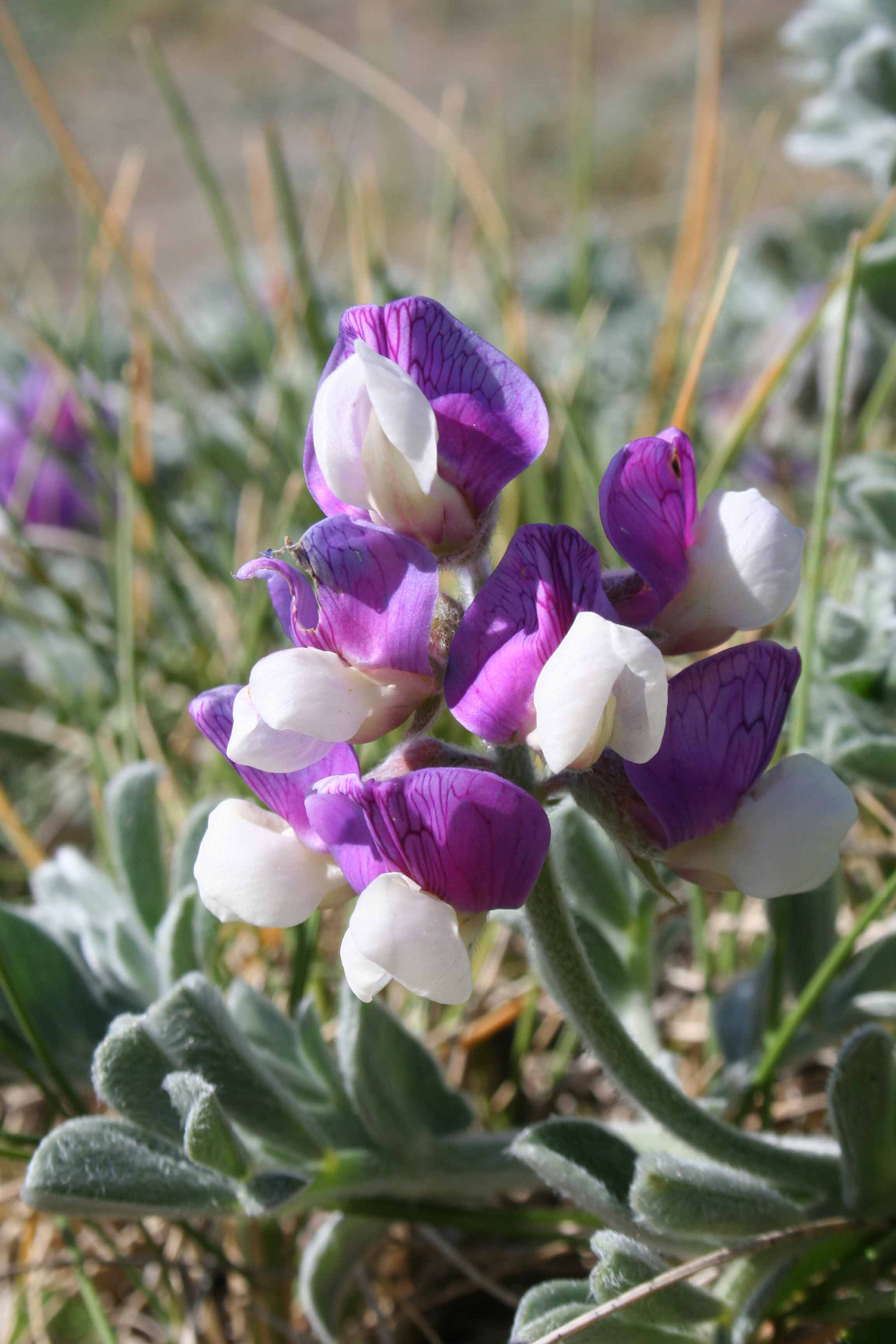 Lathyris littoralis — purple Beach Pea. One of our botanists was out at King Range's Mattole Beach (Northern California) conducting threatened and endangered species plant monitoring, and came across these beautiful wildflowers. The purple Beach pea (Lathyris littoralis) was and is starting its widespread bloom (04-18-2013). More info about the King Range National Conservation Area: More info about the BLM in California: photo by Jennifer Wheeler/BLM/2013